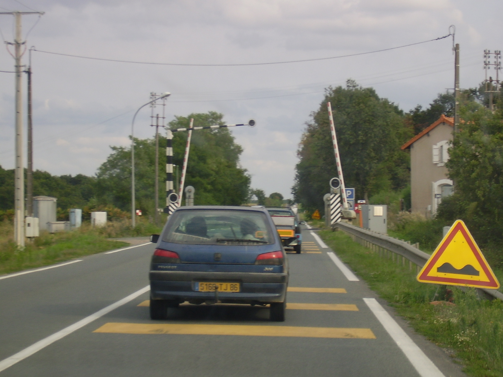 Route Nationale 147 (E62) - Dangerous level crossing, Vienne, Poitou-Charentes, France.